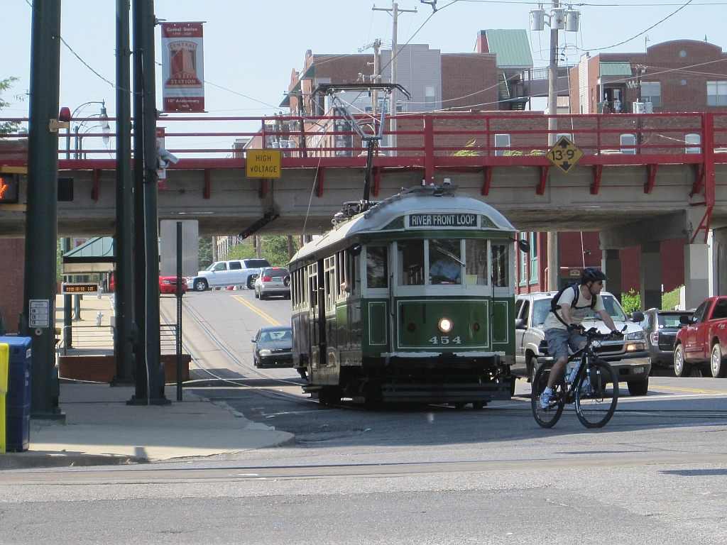 Riverfront Loop trolley on GE Patterson Avenue in Memphis, Tennessee. Memphis Trolley